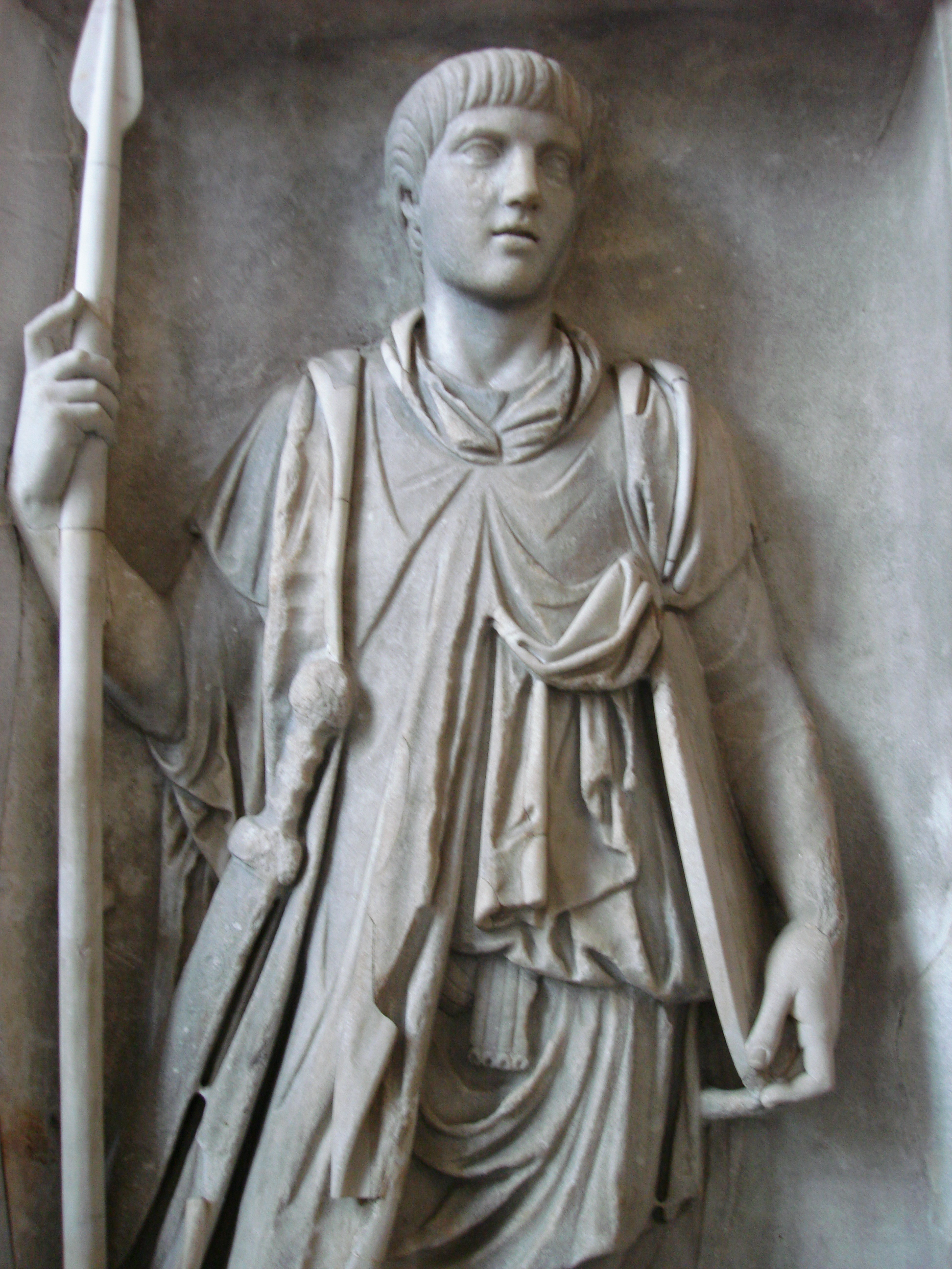 Soldier of the Imperial Body Guard (Praetorian) from the pedestal of a triumphal arch for the Emperor Trajan, early 2nd century CE found around 1800 in Pozzuoli, Italy now in the Pergamon Museum in Berlin, Germany. 159 cm tall and 86 cm wide.